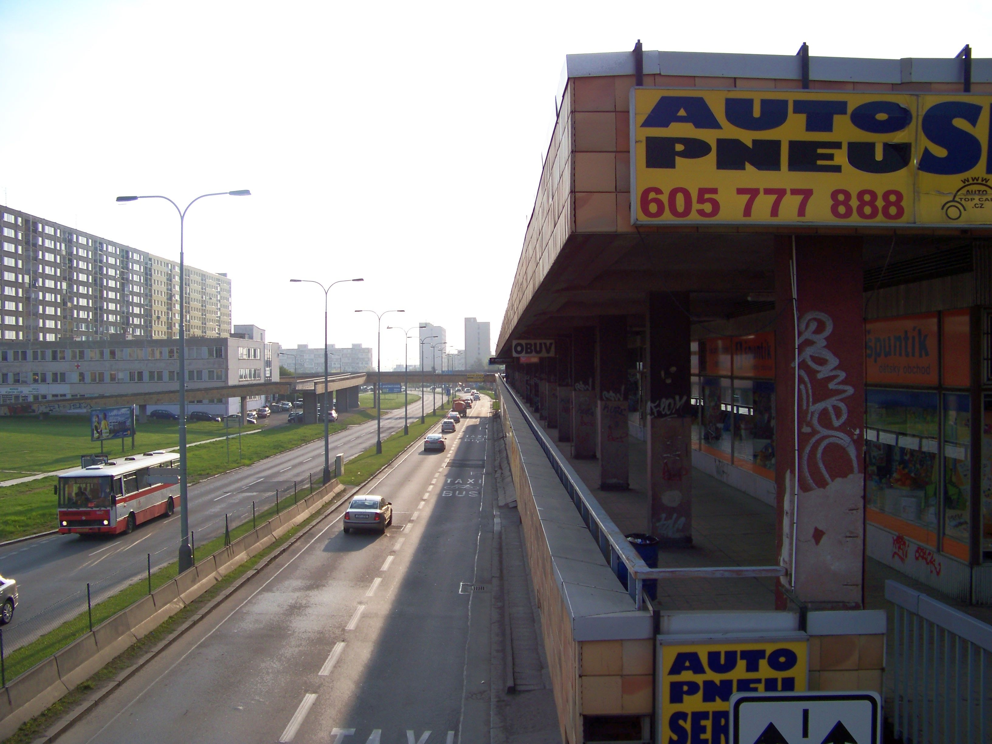 Chodov, Prague, the Czech Republic. Opatov Housing Estate. Opatovská street.